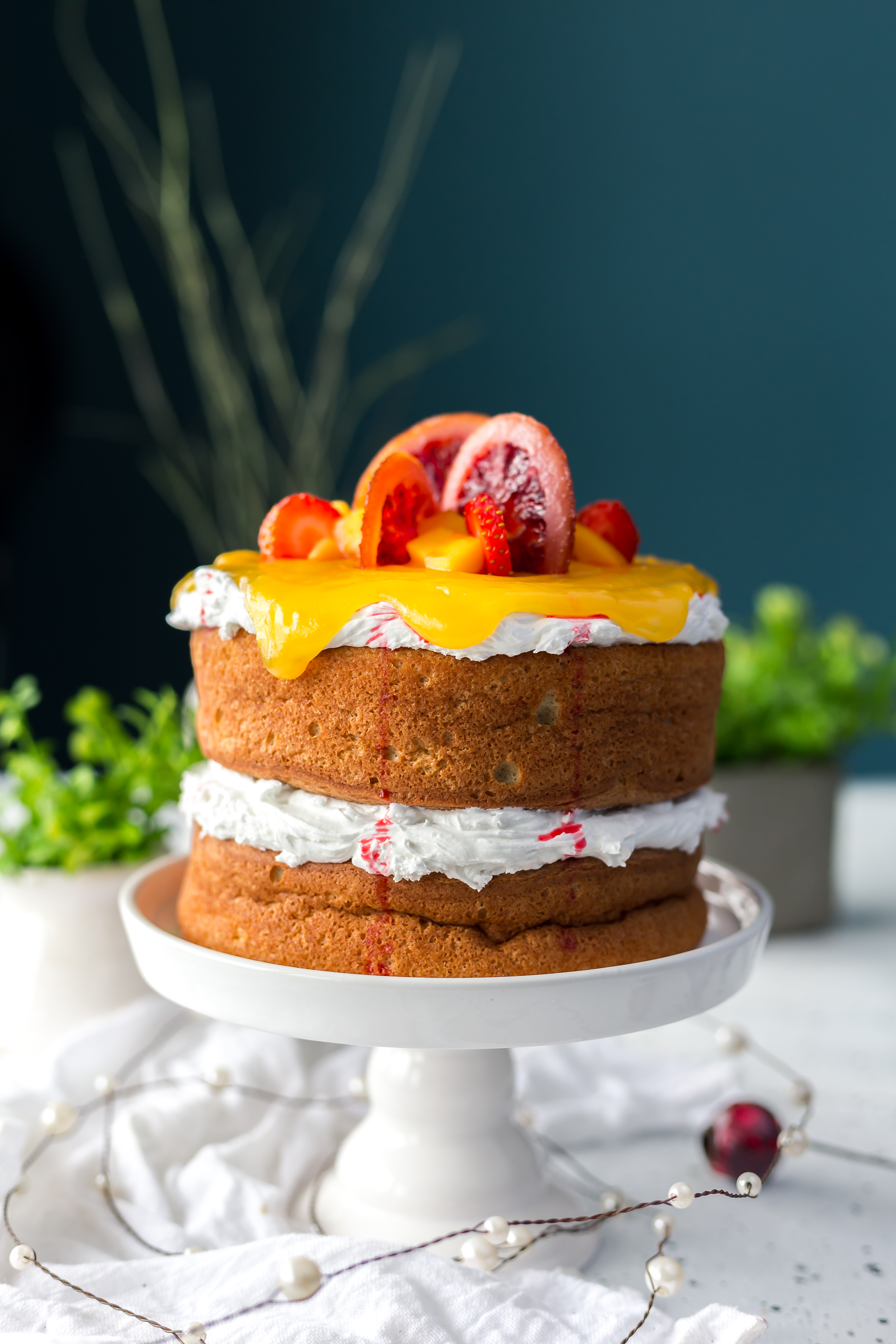 Owatonna, United States